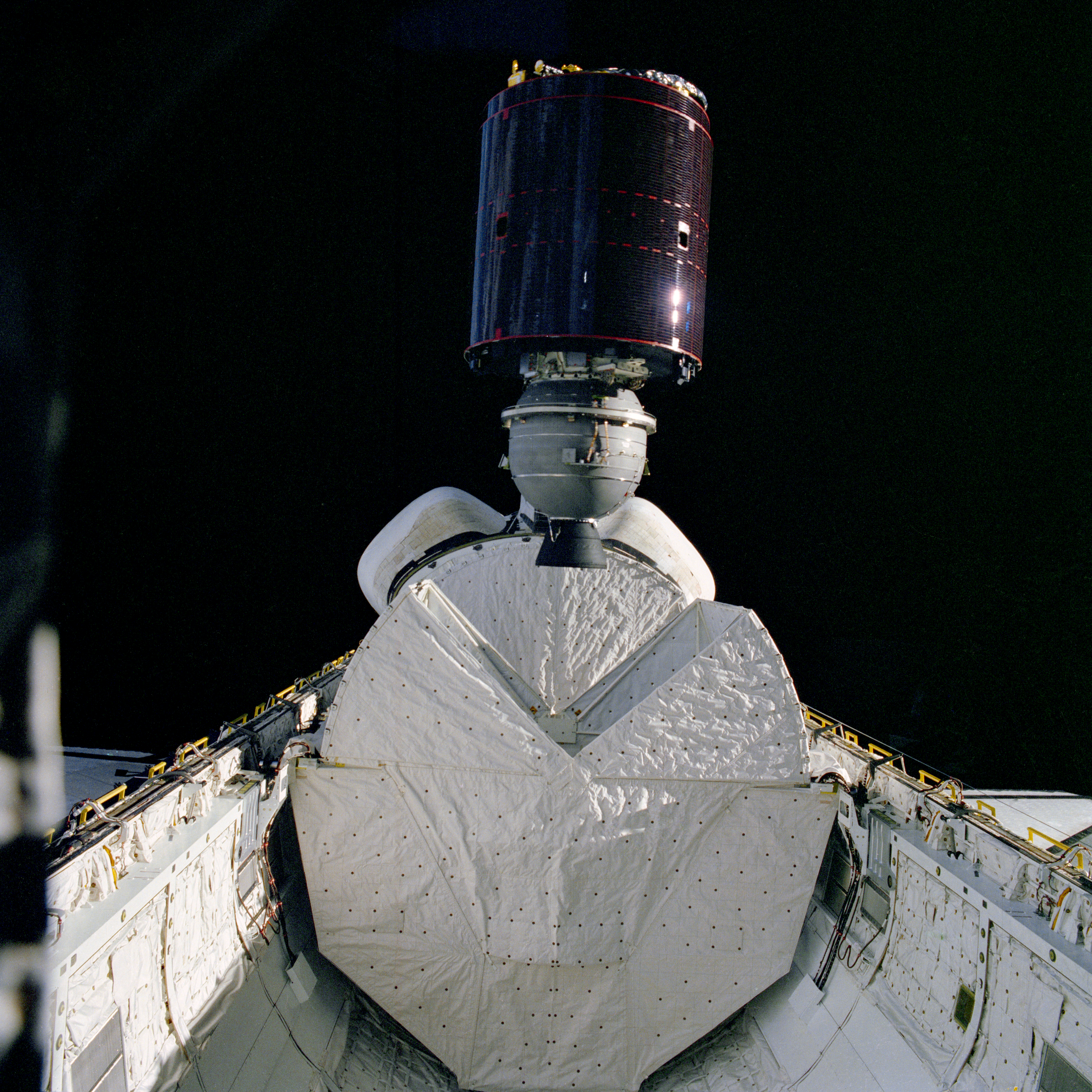 The Satellite Business Systems (SBS-3) satellite is deployed from its protective cradle in the cargo bay of Columbia. Part of both orbital maneuvering system pods are seen at center. The vertical stabilizer is obscured by the satellite. The Satellite Business Systems (SBS-3) spacecraft springs from its protective 'cradle' in the cargo bay of the Earth-orbiting space shuttle Columbia and head toward a series of maneuvers that will eventually place it in a geosynchronous orbit. This moment marks a milestone for the Space Transportation System (STS) program, as the placement of the communications satellites represents the first deployment of a commercial satellite from an orbiting space vehicle. Part of Columbia's wings can be seen on both the port and starboard sides. Also both orbital maneuvering system (OMS) pods are seen at center. The vertical stabilizer is obscured by the satellite. The closed protective cradle device shielding Telesat Canada's ANIK C-3 spacecraft is seen between the other shield and the OMS pod. ANIK is to be launched on the mission's second day. This photograph was exposed through the aft windows of the flight deck.